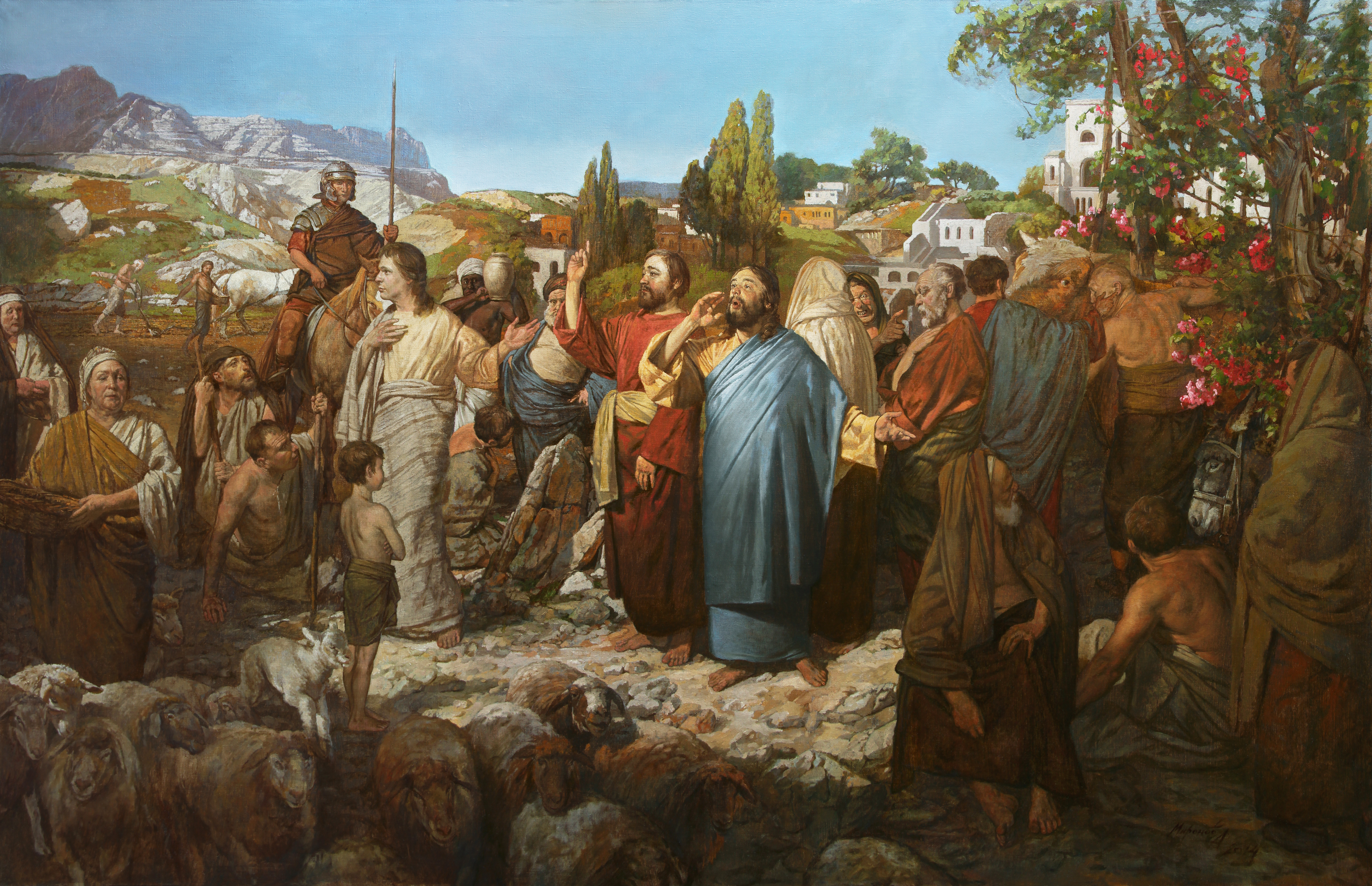 Parable of the Wedding Feast. 2014. Canvas, oil. 110 x 170. Artist A.N. Mironov